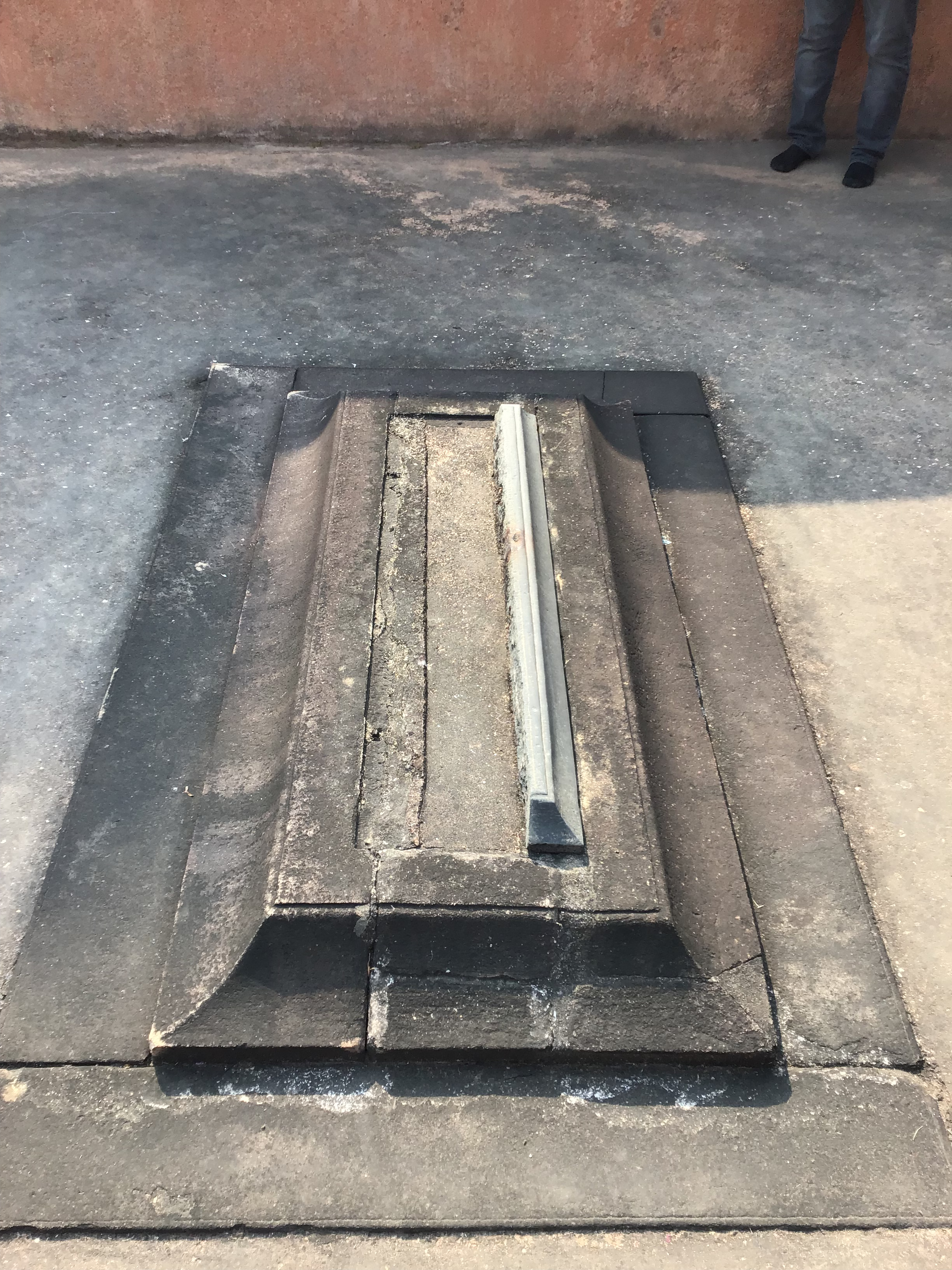 Tomb of Ghaseti Begum at Khosbag (Khosbagh), Murshidabad, West Bengal, India